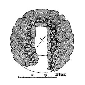 Pennance - Entrance Grave - Cornwall - UK